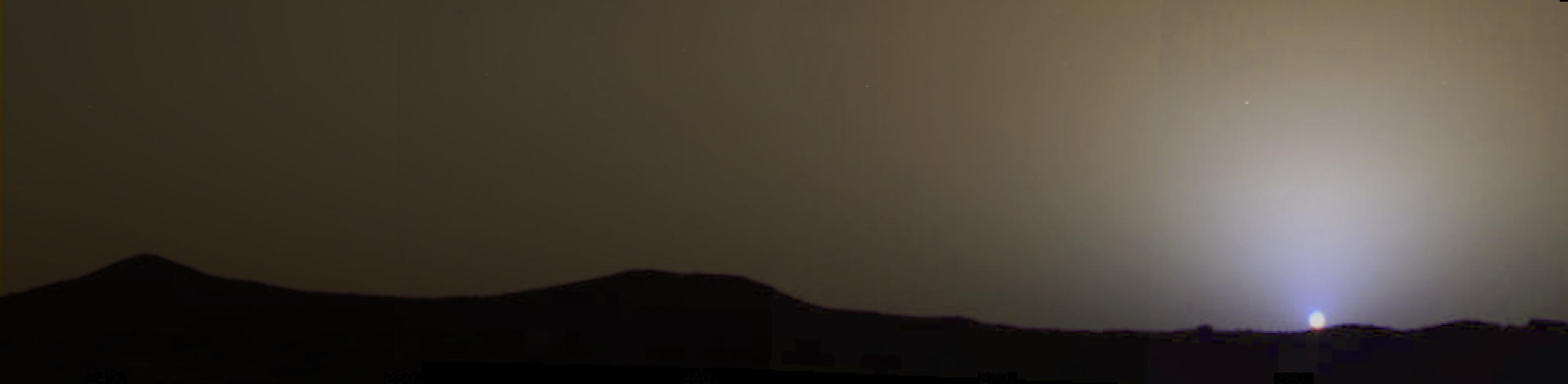 Courtesy: NASA/JPL-Caltech Sunset on Mars, as imaged by Mars Pathfinder. The Martian sky is brownish gray, but the area around the setting sun is blue. This is the exact opposite of Earth's sky. The brownish gray sky as it would be seen by an observer on Mars in this four-frame, true color mosaic taken on sol 24 (at approximately 1610 LST). The twin peaks can be seen on the horizon. The sky near the sun is a pale blue color. Azimuth extent is 60° and elevation extent is approximately 12°degrees. A description of the techniques used to generate this color image from IMP data can be found in Maki et al., 1999 (see full reference in Image Note). Note: a calibrated output device is required accurately reproduce the correct colors. Mars Pathfinder is the second in NASA's Discovery program of low-cost spacecraft with highly focused science goals. The Jet Propulsion Laboratory, Pasadena, CA, developed and manages the Mars Pathfinder mission for NASA's Office of Space Science, Washington, D.C. JPL is an operating division of the California Institute of Technology (Caltech). The IMP was developed by the University of Arizona Lunar and Planetary Laboratory under contract to JPL. Peter Smith is the Principal investigator. See also Image:Mars Pathfinder sunset.jpg Category:Images of Mars